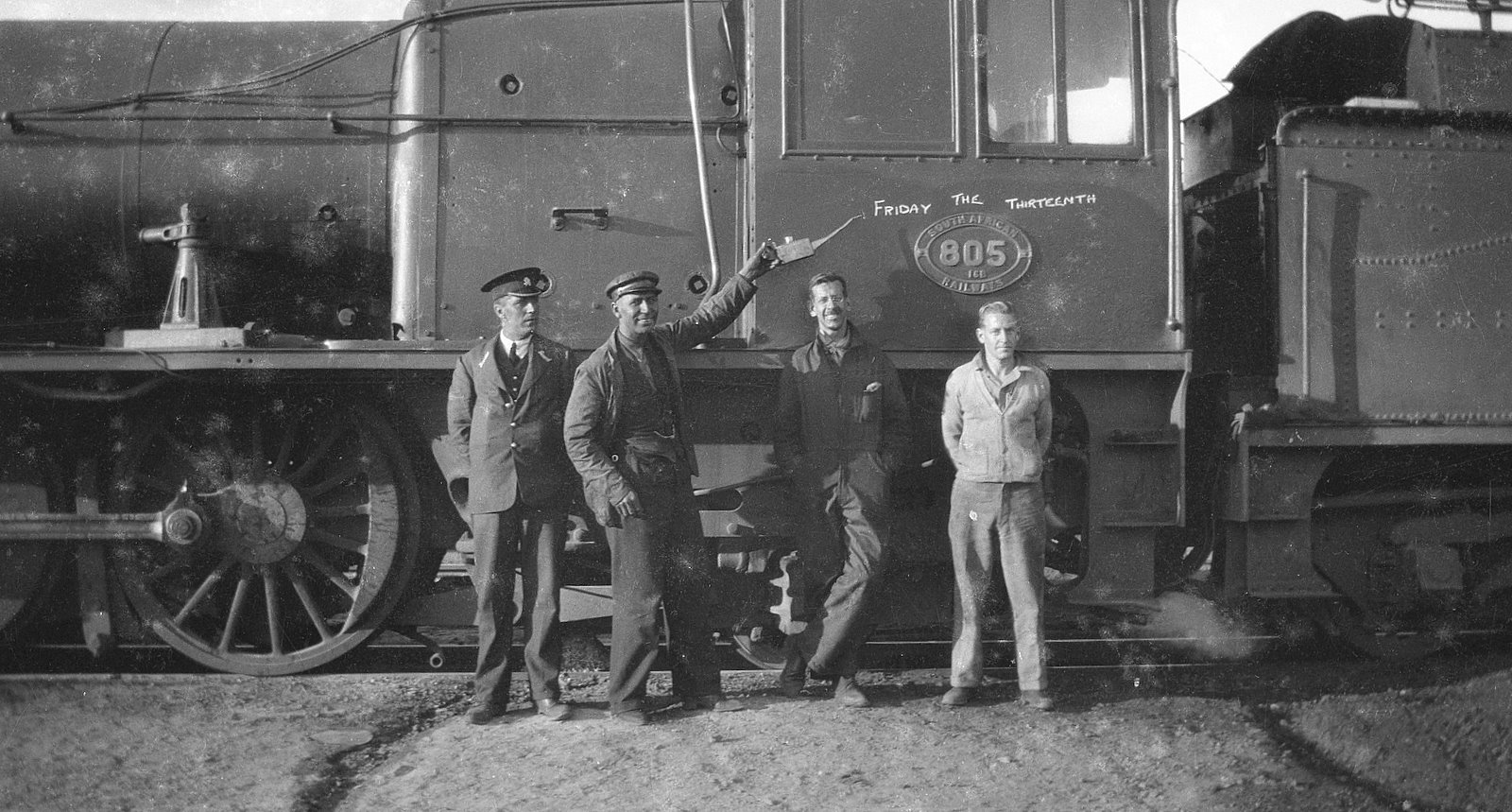 SAR Class 16B 805 (4-6-2) Location: Braamfontein. The young man standing just under the locomotive number plate is a young Ben Schoeman when he was a fireman at Braamfontein Loco and firing to the driver, second from left with the oil can, on Class 16B number 805 that now resides in the Outeniqua Transport Museum in George. The guard is on the left and the fellow inside of Ben Schoeman is believed to be Mechanical Engineer C.T. Long. That young man was destined to rise from the grade of fireman to the Minister of Transport.